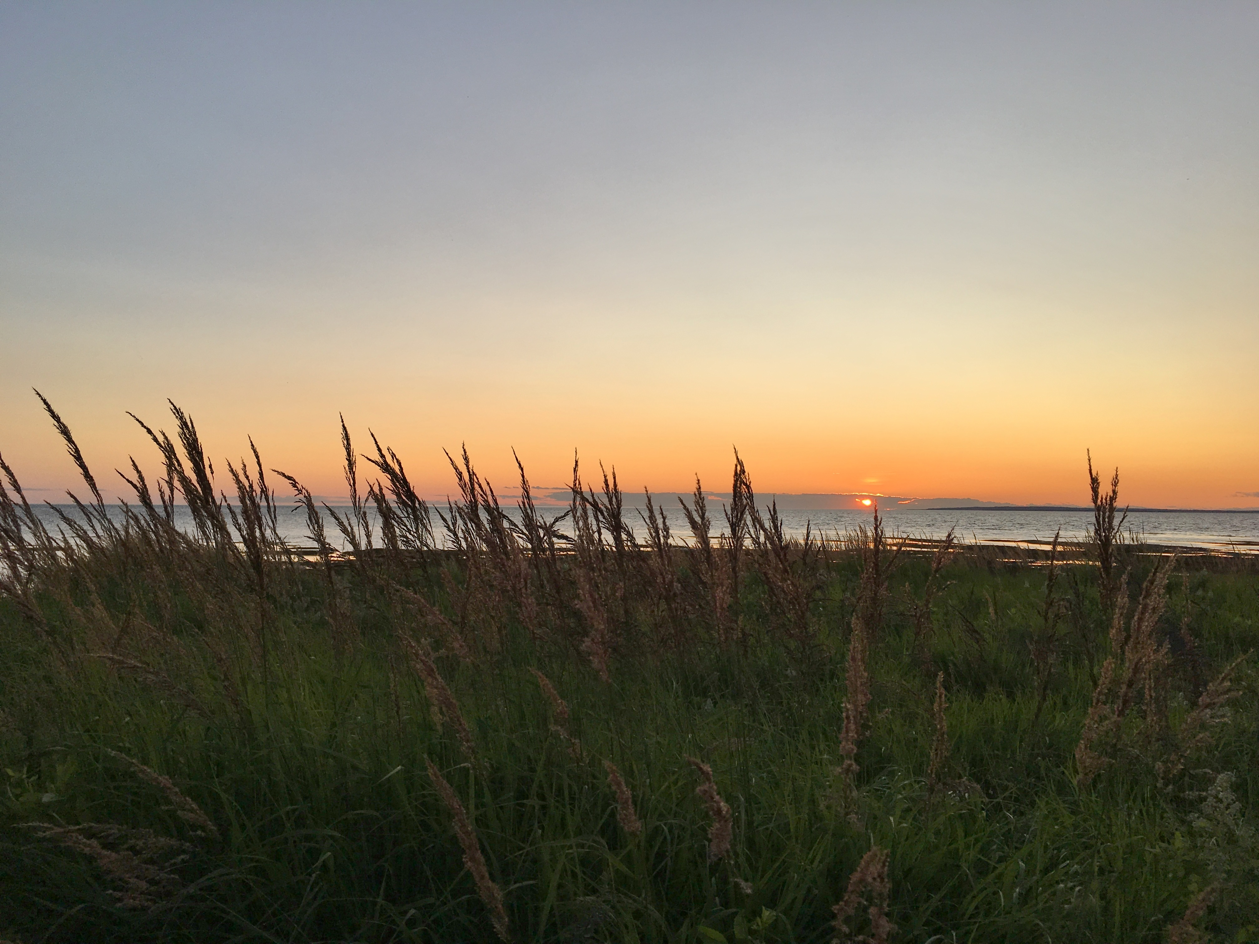 Photograph of sun setting over the water in Belfast, Prince Edward Island, Canada (August 5, 2019)